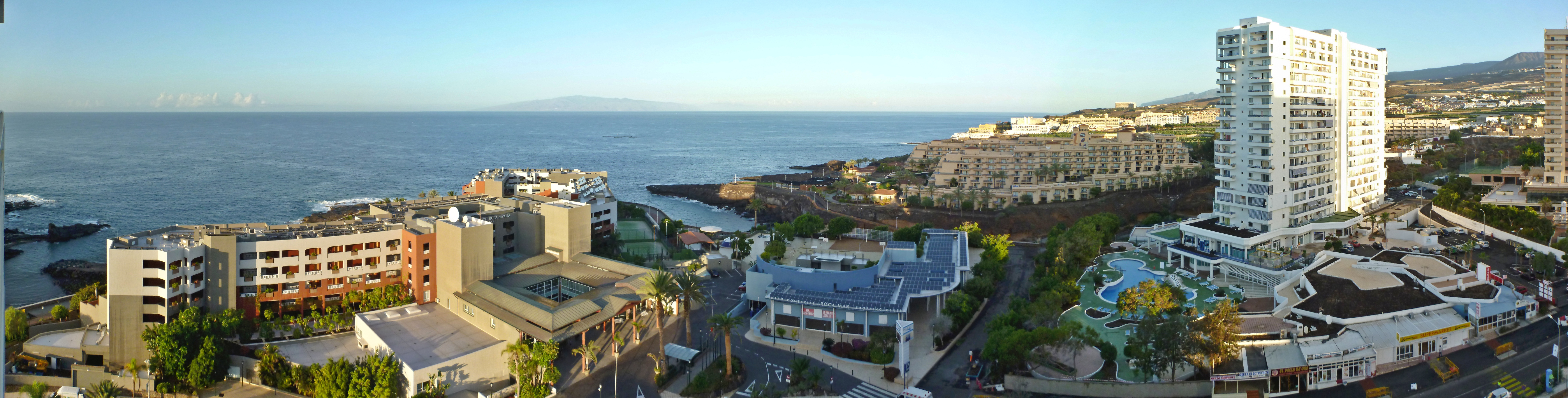 Panoramic of Playa Paraíso fro 12 floor of the hotel Fiesta Playa Paradoso Complex